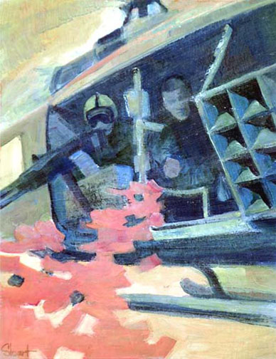 CHIEU HOI MISSION by Craig L. Stewart, CAT IX, 1969-70, Courtesy of the National Museum of the U.S. Army